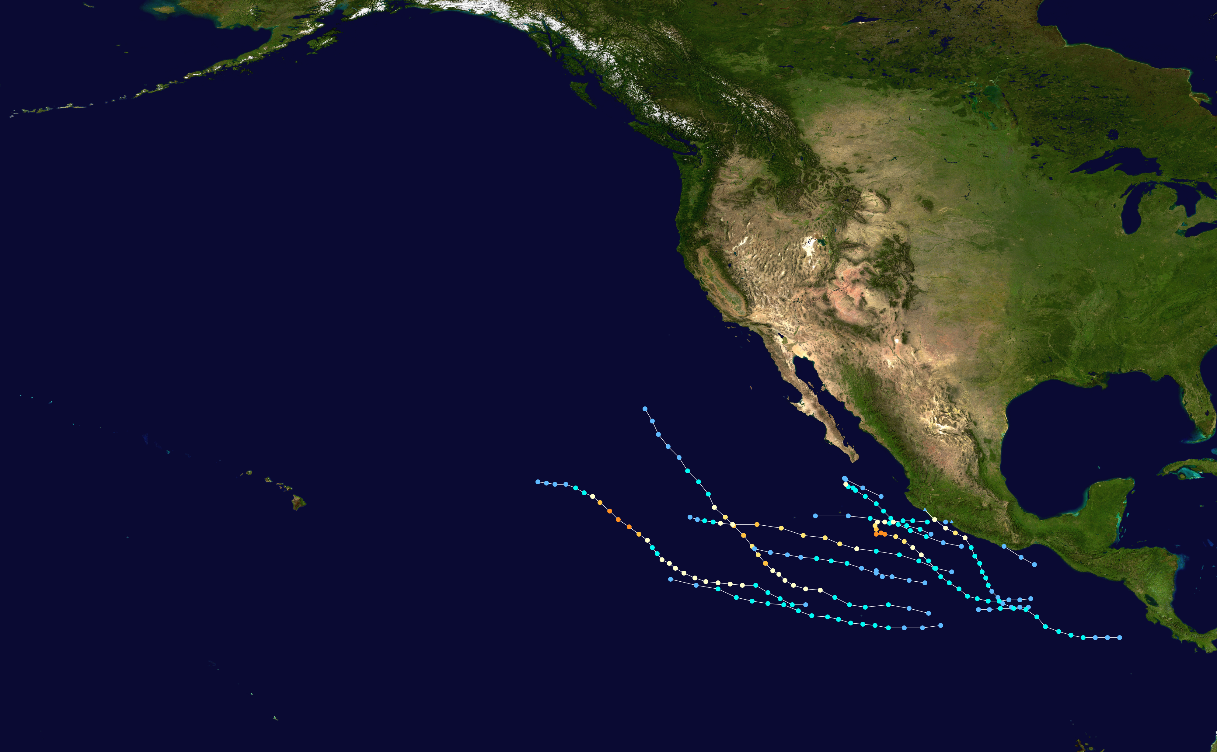 This map shows the tracks of all tropical cyclones in the 1979 Pacific hurricane season. The points show the location of each storm at 6-hour intervals. The colour represents the storm's maximum sustained wind speeds as classified in the Saffir-Simpson Hurricane Scale (see below), and the shape of the data points represent the type of the storm. Saffir–Simpson hurricane wind scale Tropical depression≤38 mph≤62 km/h Category 3111–129 mph178–208 km/h Tropical storm39–73 mph63–118 km/h Category 4130–156 mph209–251 km/h Category 174–95 mph119–153 km/h Category 5≥157 mph≥252 km/h Category 296–110 mph154–177 km/h Unknown Storm typeTropical cycloneSubtropical cycloneExtratropical cyclone / Remnant low / Tropical disturbance